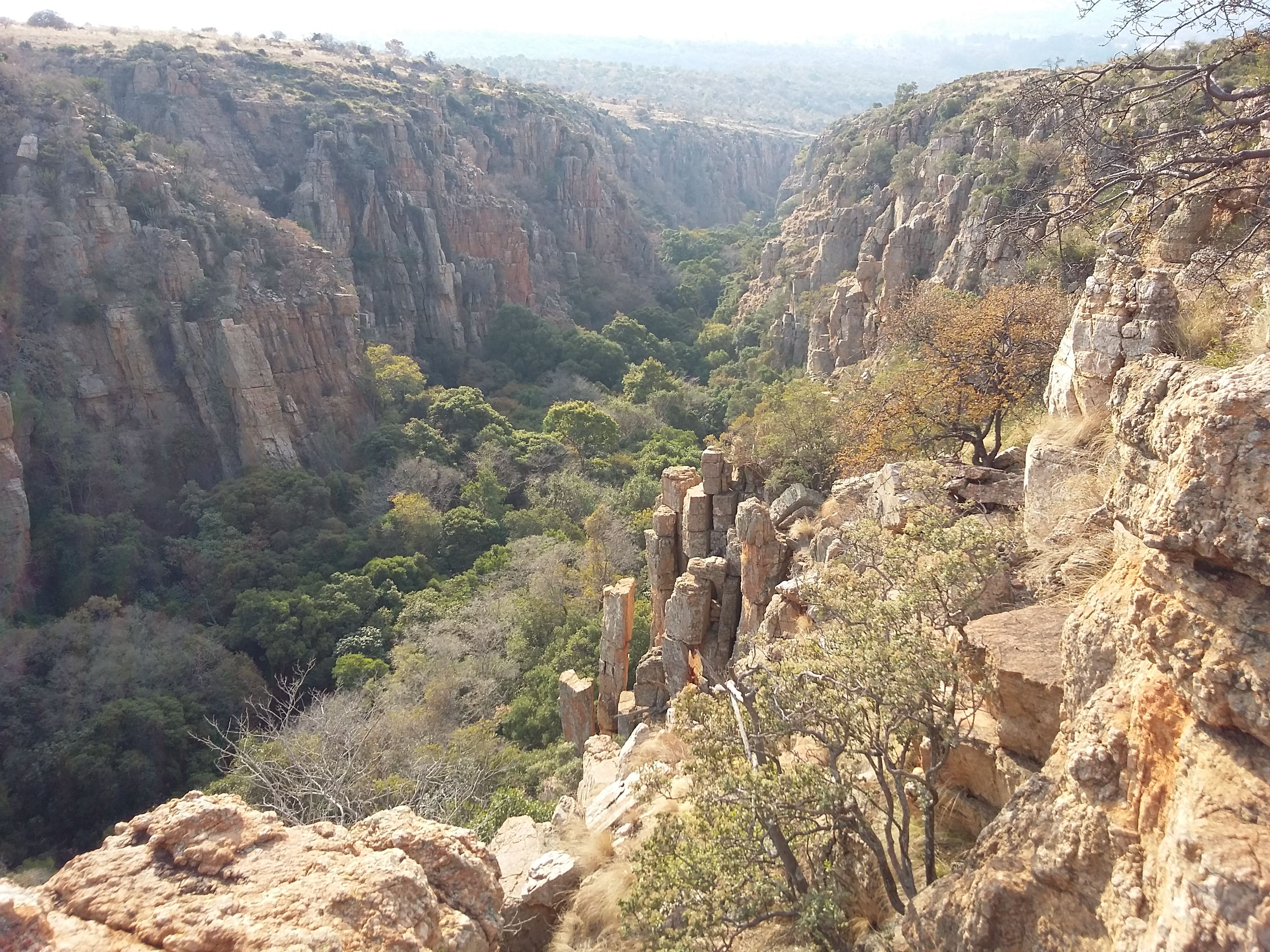 Hamerkop Kloof near Rustenburg, Magaliesberg, South Africa